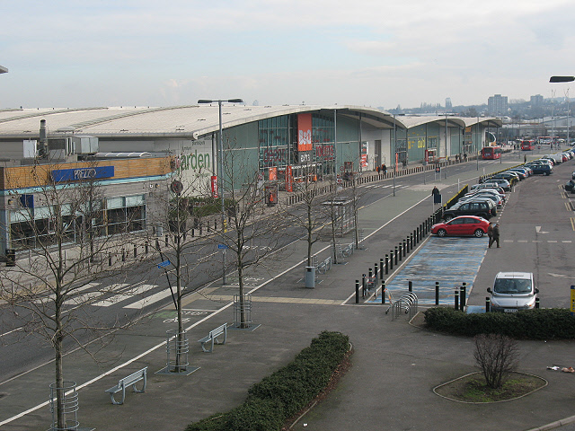 Millennium Leisure Park, East Greenwich. The "leisure park" is basically an out-of-town shopping centre. The superstores visible are B&Q and Comet. Sainsbury's is beyond them just round the bend and in square TQ4078. The "park" also includes a cinema 1163804 to the left of this picture.